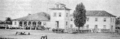 Casa da Fazenda Quissamã painted by Charles Ribeyrolles in 1863. This sugarcane plantation master's house was inhabited by the first earl and viscount of Araruama and by his son, the earl and viscount of Quissamã.